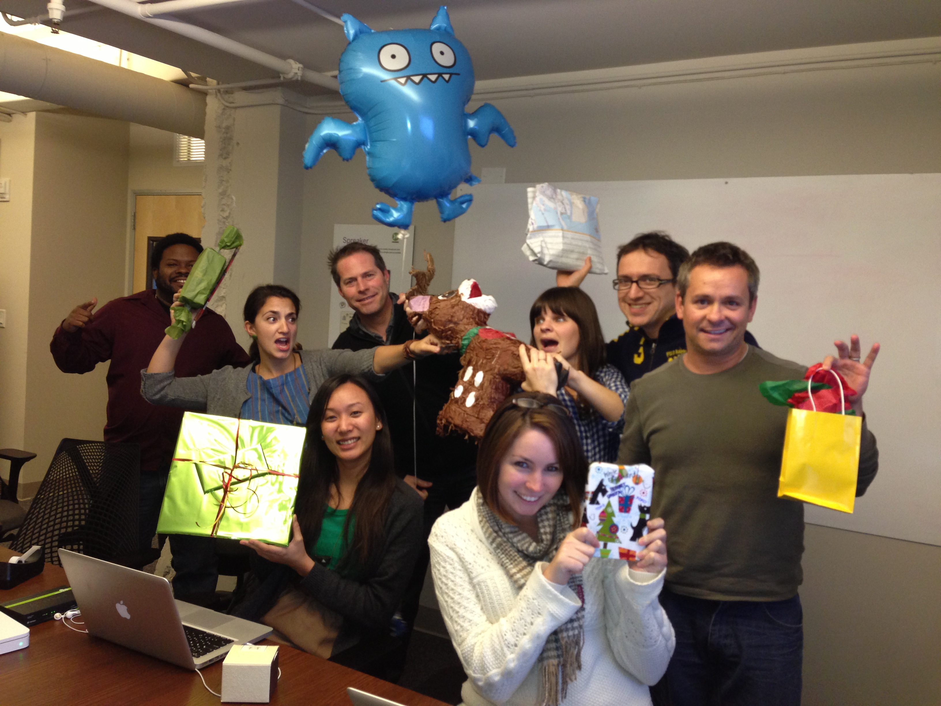 This picture shows a group of people preparing to exchange gifts in a white elephant game. It is intended to show the carefree atmosphere involved.